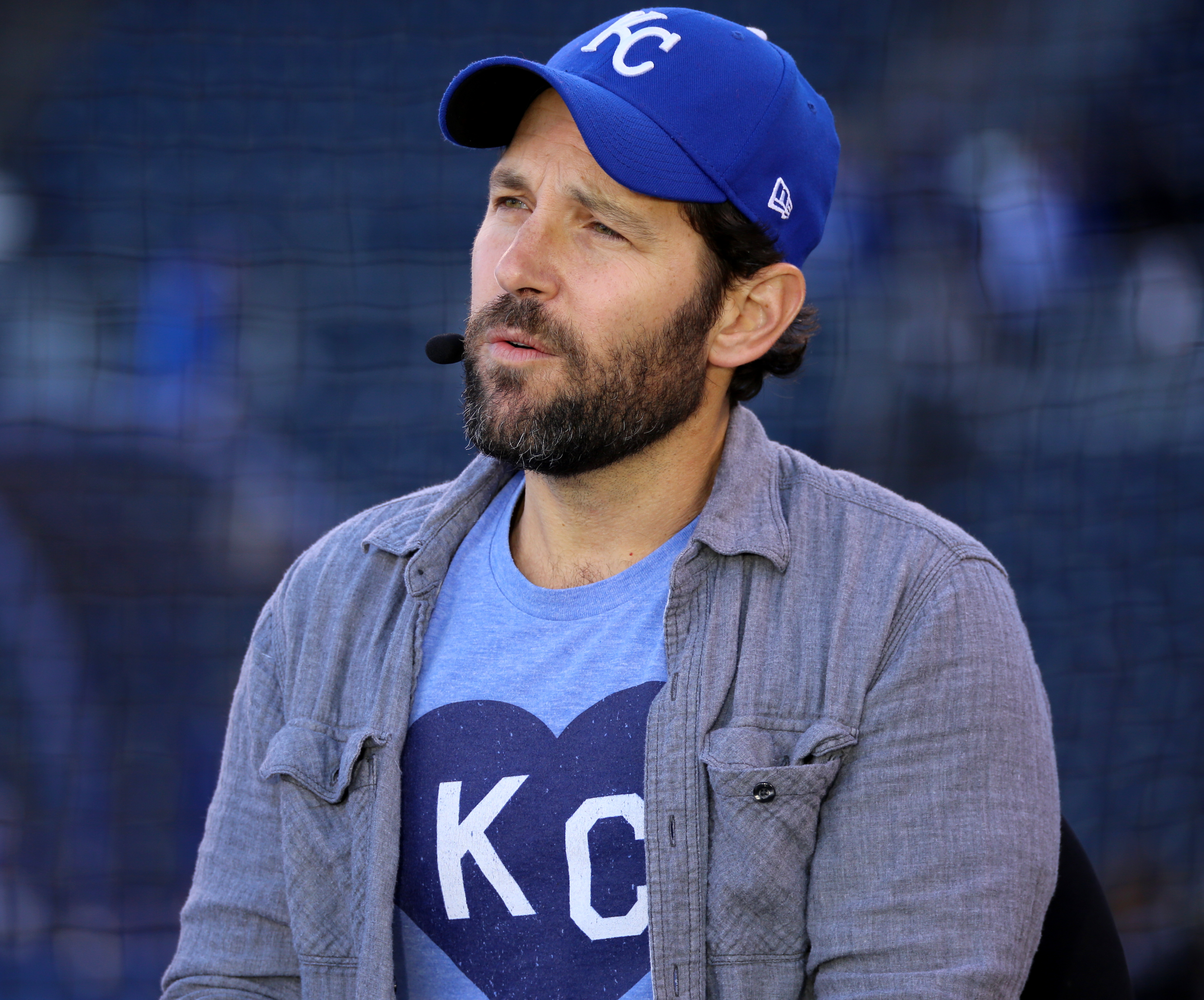 Paul Rudd on MLB Network's Intentional Talk.